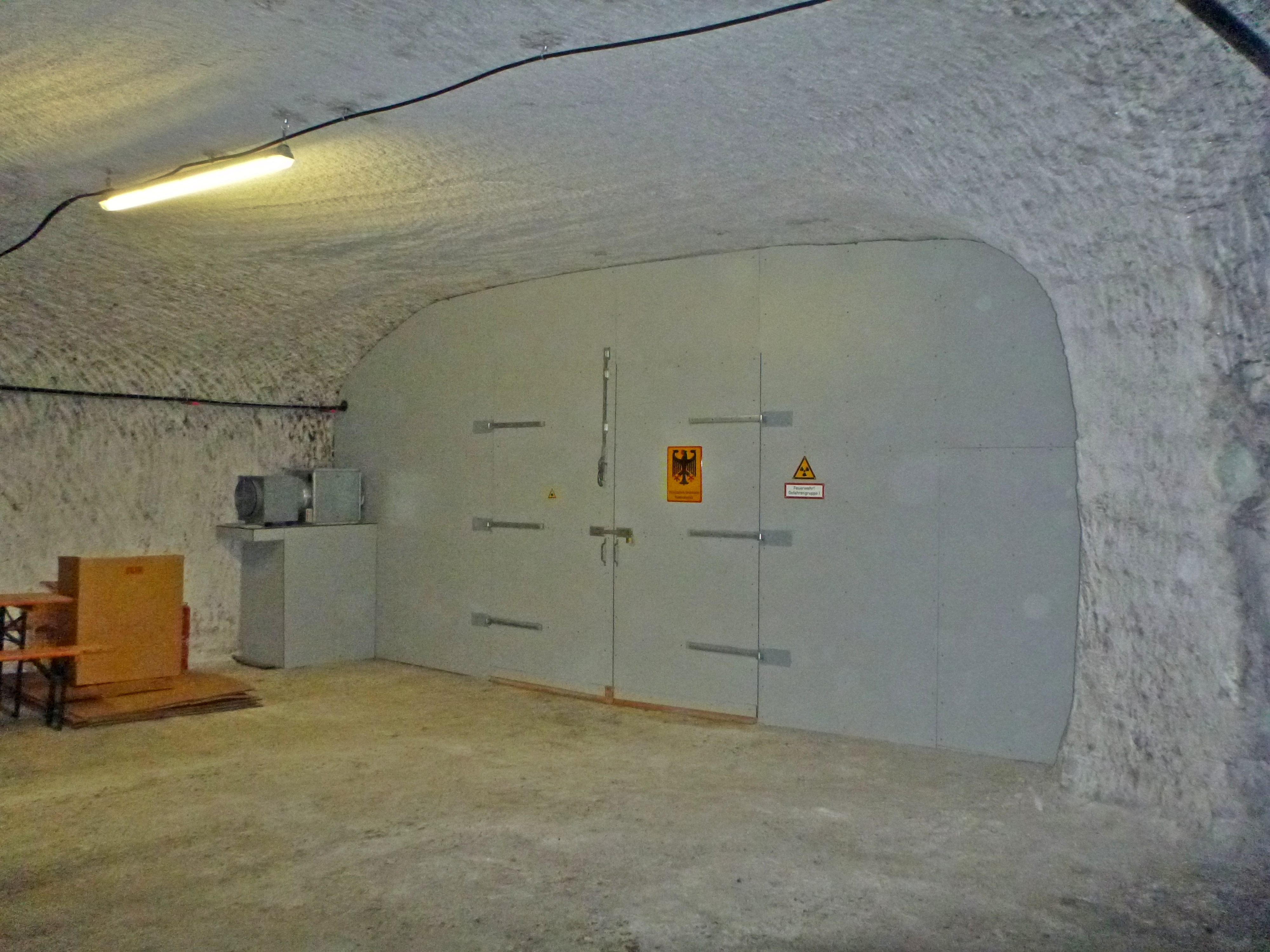 Entrance to the underground laboratory UDO2 operated by the Physikalisch-Technischen Bundesanstalt in the Steinsalzwerk Braunschweig-Lüneburg in 490 meter depth